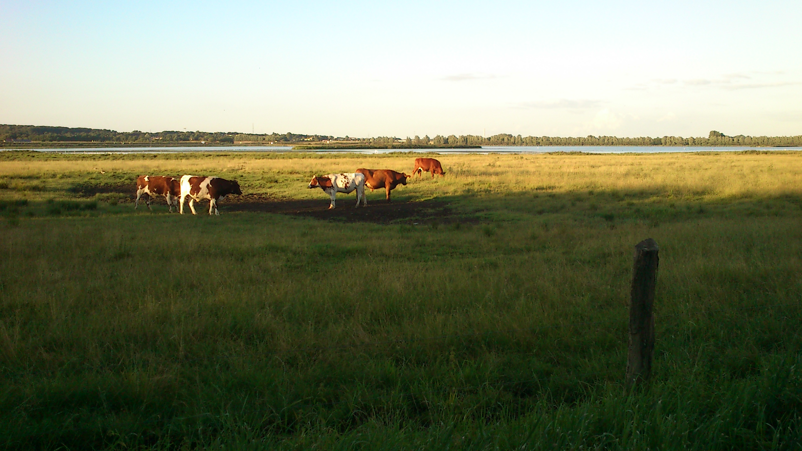 Grazing cattle is released at the lake brinks, to stimulate and maintain the meadow habitat, with its special flora and fauna.